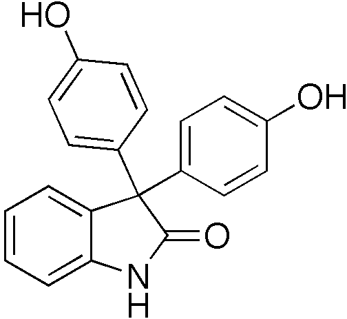 chemical structure of oxyphenisatine